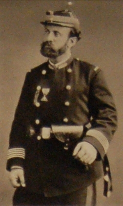 Adolphe Assi (1841-1886).